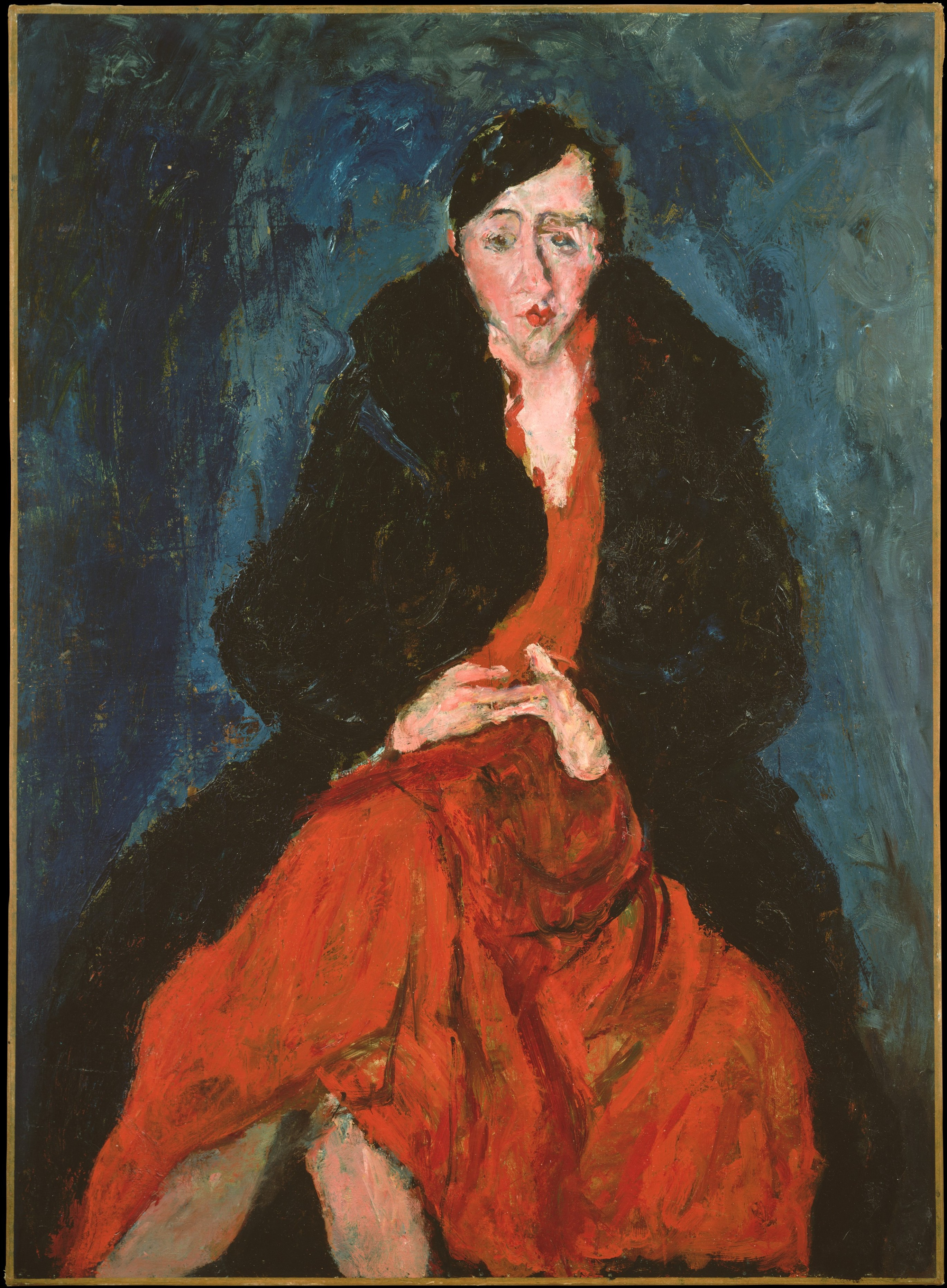 Portrait of Madeleine Castaing Artist: Chaim Soutine (French (born Lithuania), Smilovitchi 1893–1943 Paris) Date: ca. 1929 Medium: Oil on canvas Dimensions: 39 3/8 × 28 3/4 in. (100 × 73 cm) Classification: Paintings Credit Line: Bequest of Miss Adelaide Milton de Groot (1876-1967), 1967 Soutine met the successful Parisian interior decorator and antiquarian Madeleine Castaing (1894-1992) in 1920. She and her husband became one of the artist's most important patrons during the following decade. The portrait took six sittings in the artist's Paris studio. Castaing's fidgeting hands, awkwardly positioned legs, and tense facial expression convey her impatience and discomfort while posing.